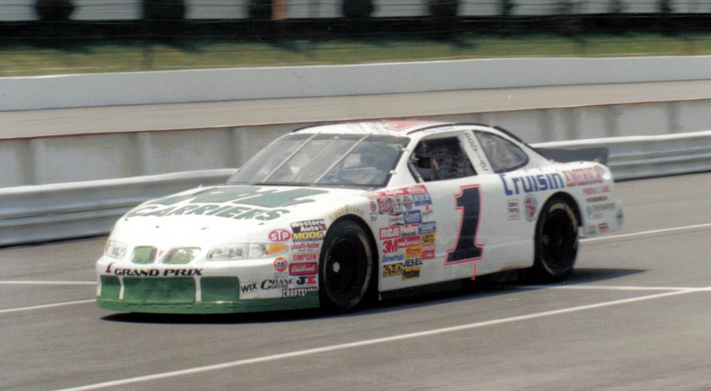 NASCAR driver Morgan Shepherd Pontiac Grand Prix in 1997 at Pocono.